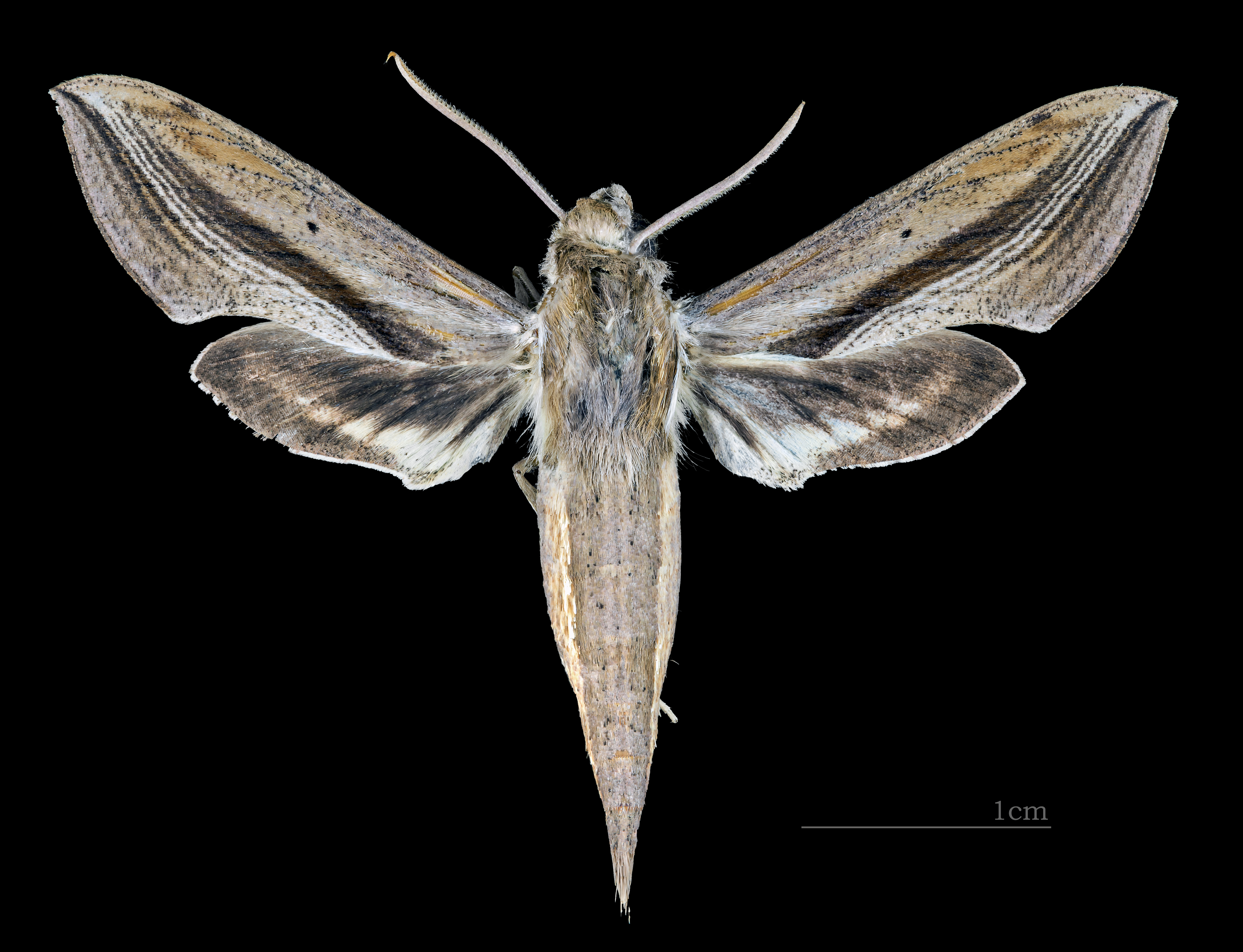 Xylophanes robinsonii - Dorsal side Collection of the Mathematician Laurent Schwartz